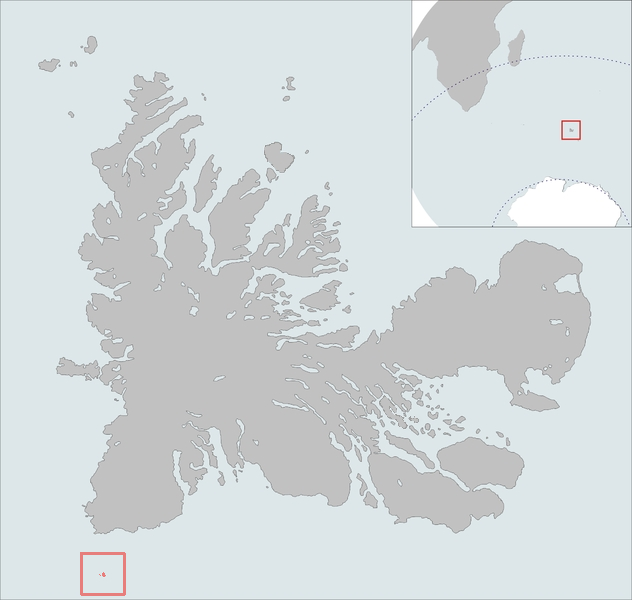 Position of Îles Boynes, in the Kerguelen Islands. Drawn by Varp and coloured by lal.sacienne.